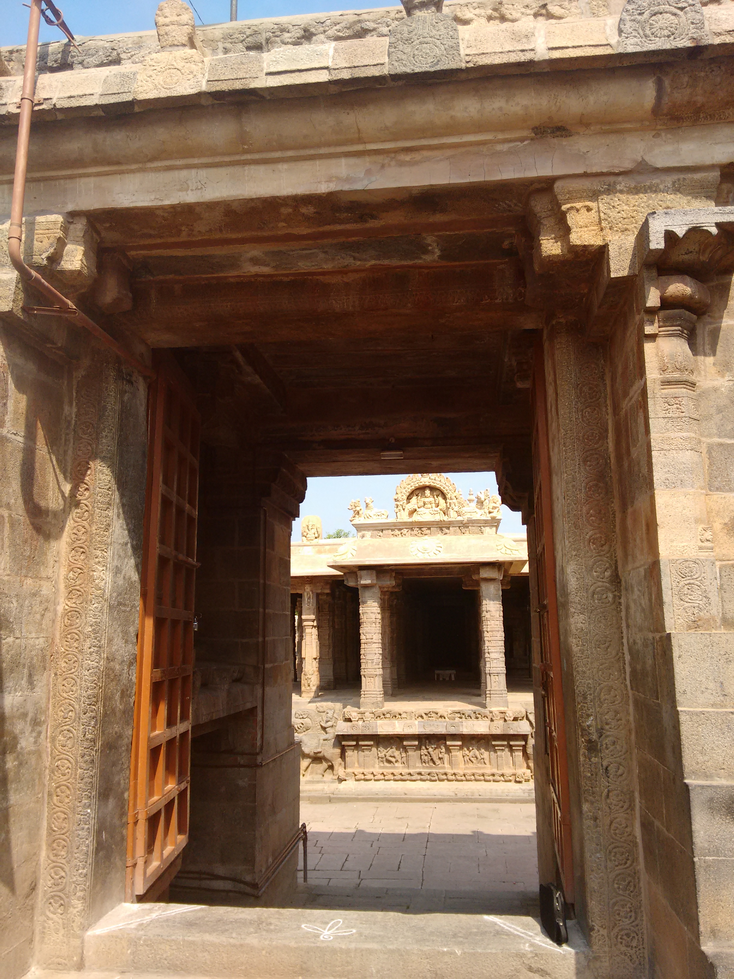 darasuram airavathesvara temple entrance தாராசுரம் ஐராவதேஸ்வரர் கோயில் வாயில்